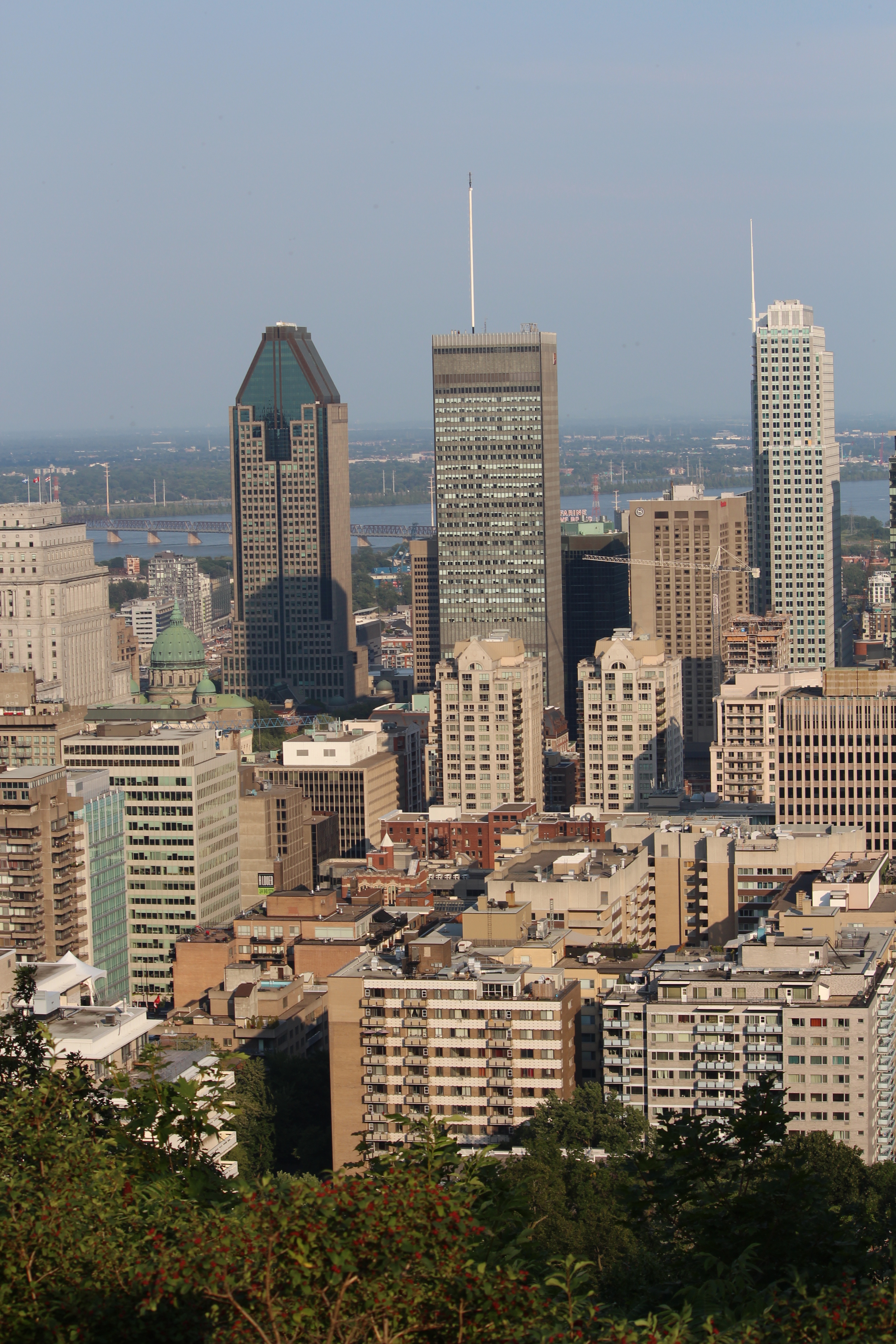 Views from Mount Royal Belvedere, Montreal, Canada